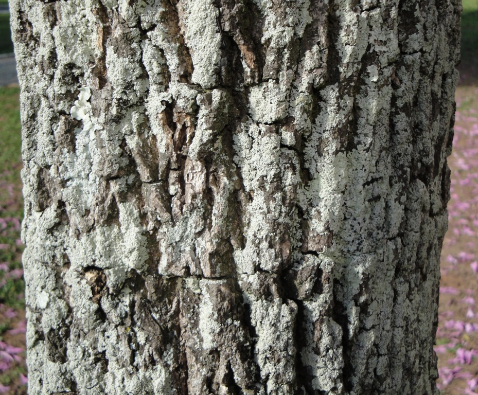 Tabebuia heptaphylla - BIGNONIACEAE Brasília - Distrito Federal - Brasil.